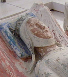 Tombs of Eleanor of Aquitaine and Henry II of England at Fontevraud (detail of Eleaneor's headdress)